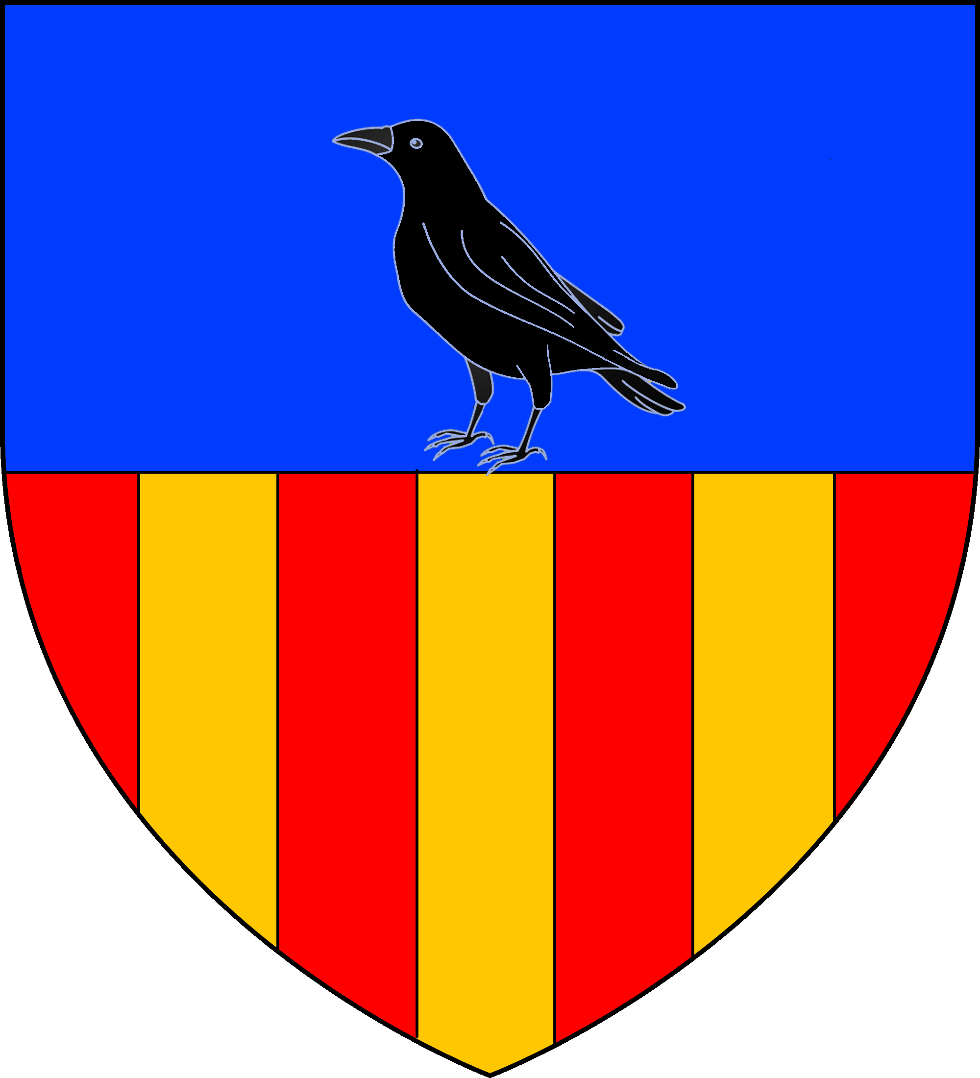 (Stemma dei Groppo)